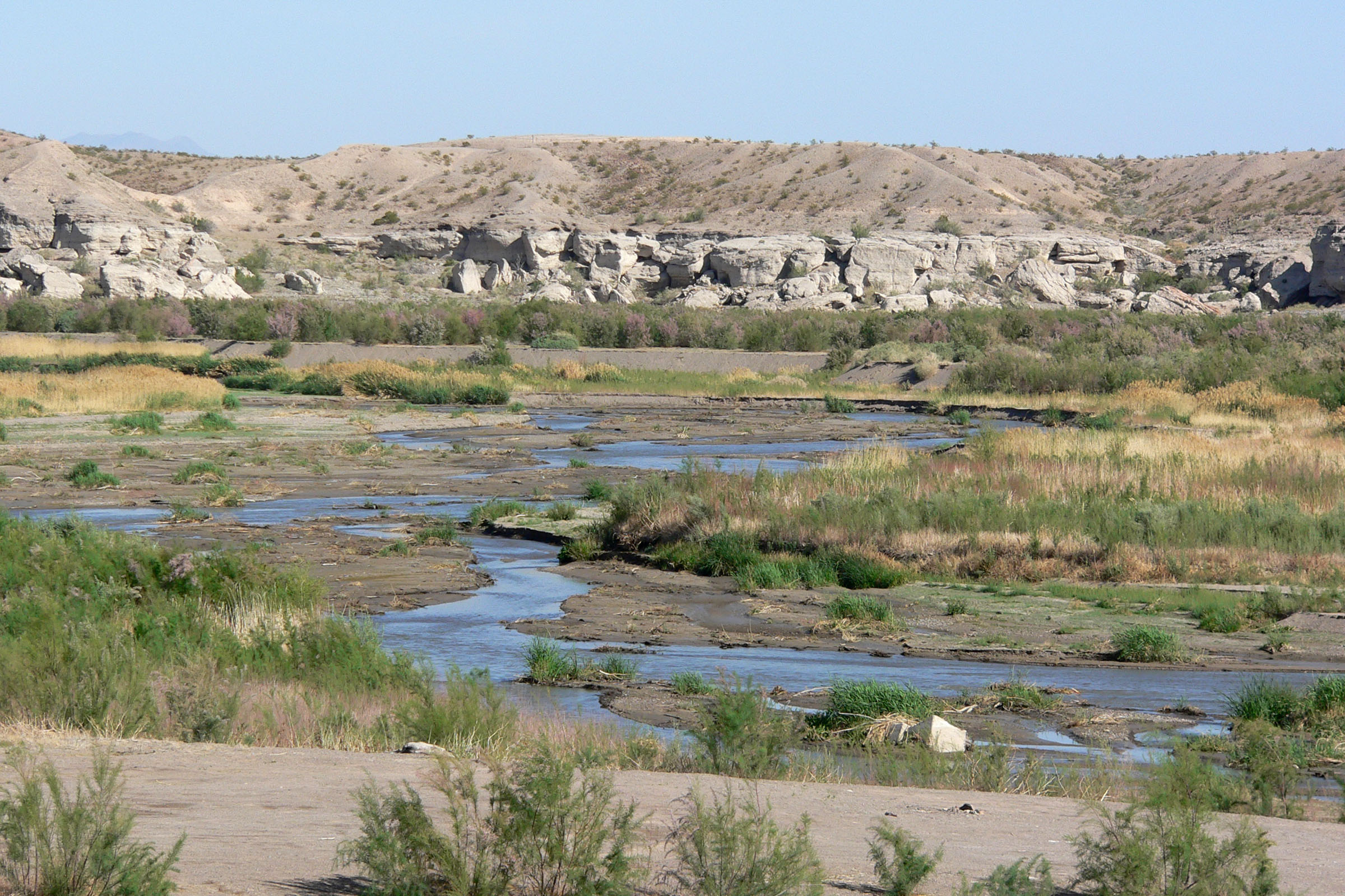 Lower Las Vegas Wash, near its drainage into Lake Mead, southern Nevada